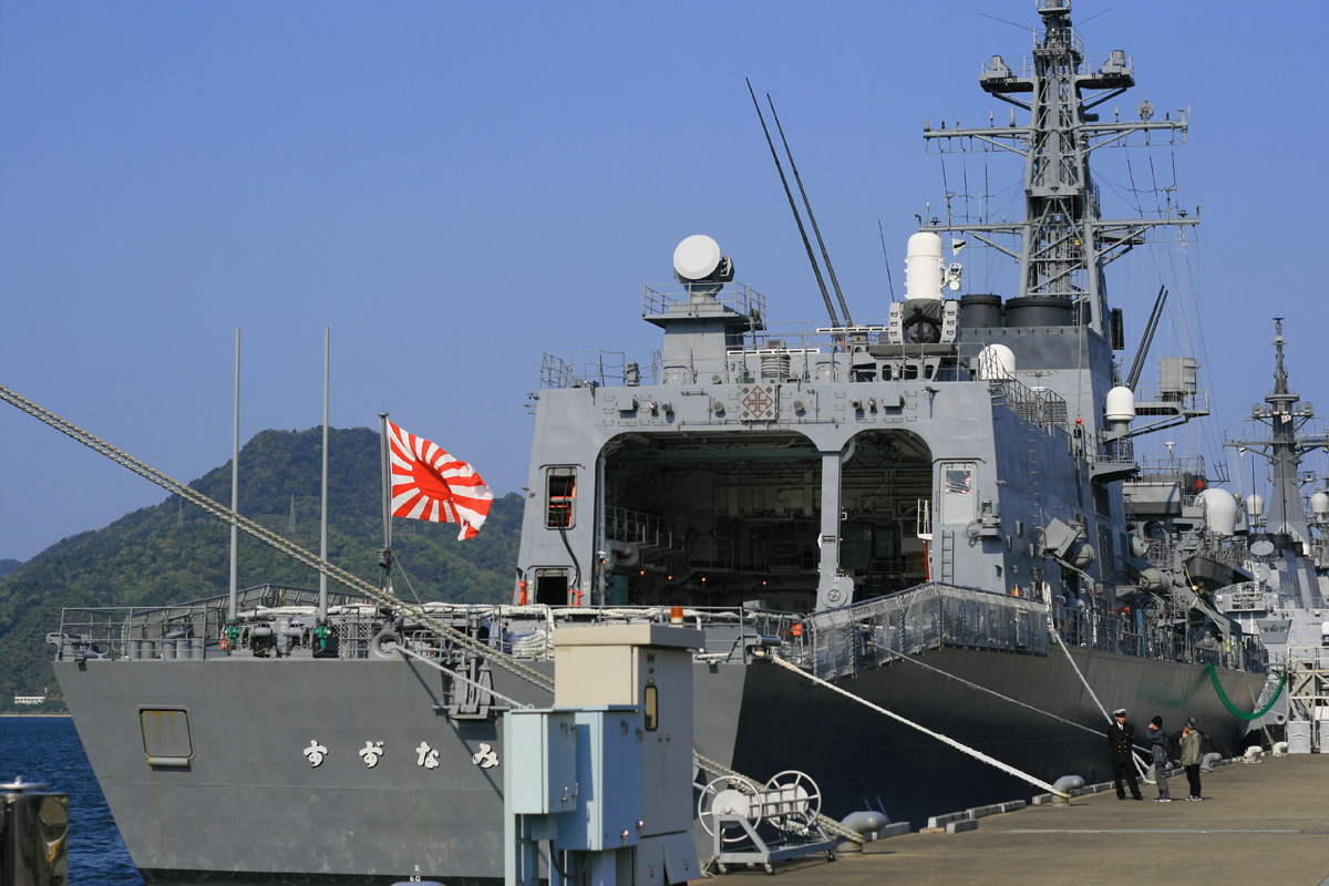 JS Suzunami (DD-114) moored at Kitasui Pier, Maizuru.